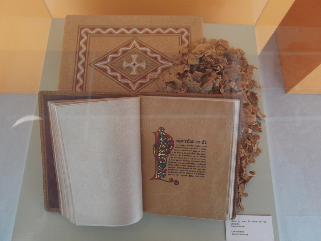 Song of Songs with cork